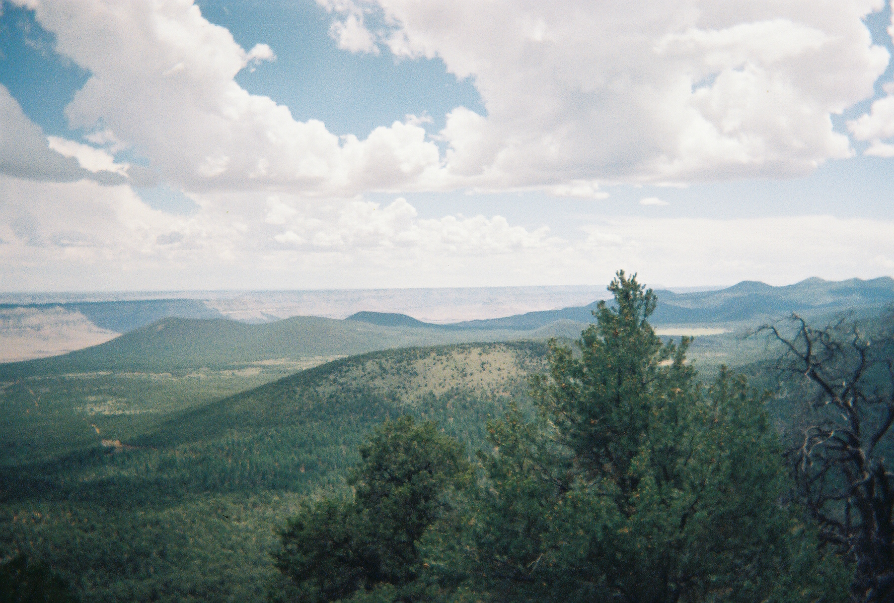 Looking south towards the Grand Canyon from the Mt. Trumbull Wilderness